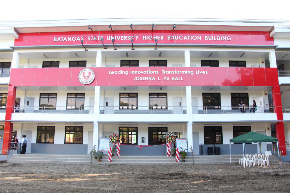 BatStateU Mabini Campus Facade